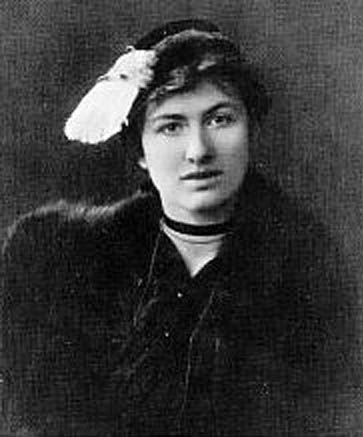 Edith Södergran in 1917. Photo by Claudine (Ina) Roos.